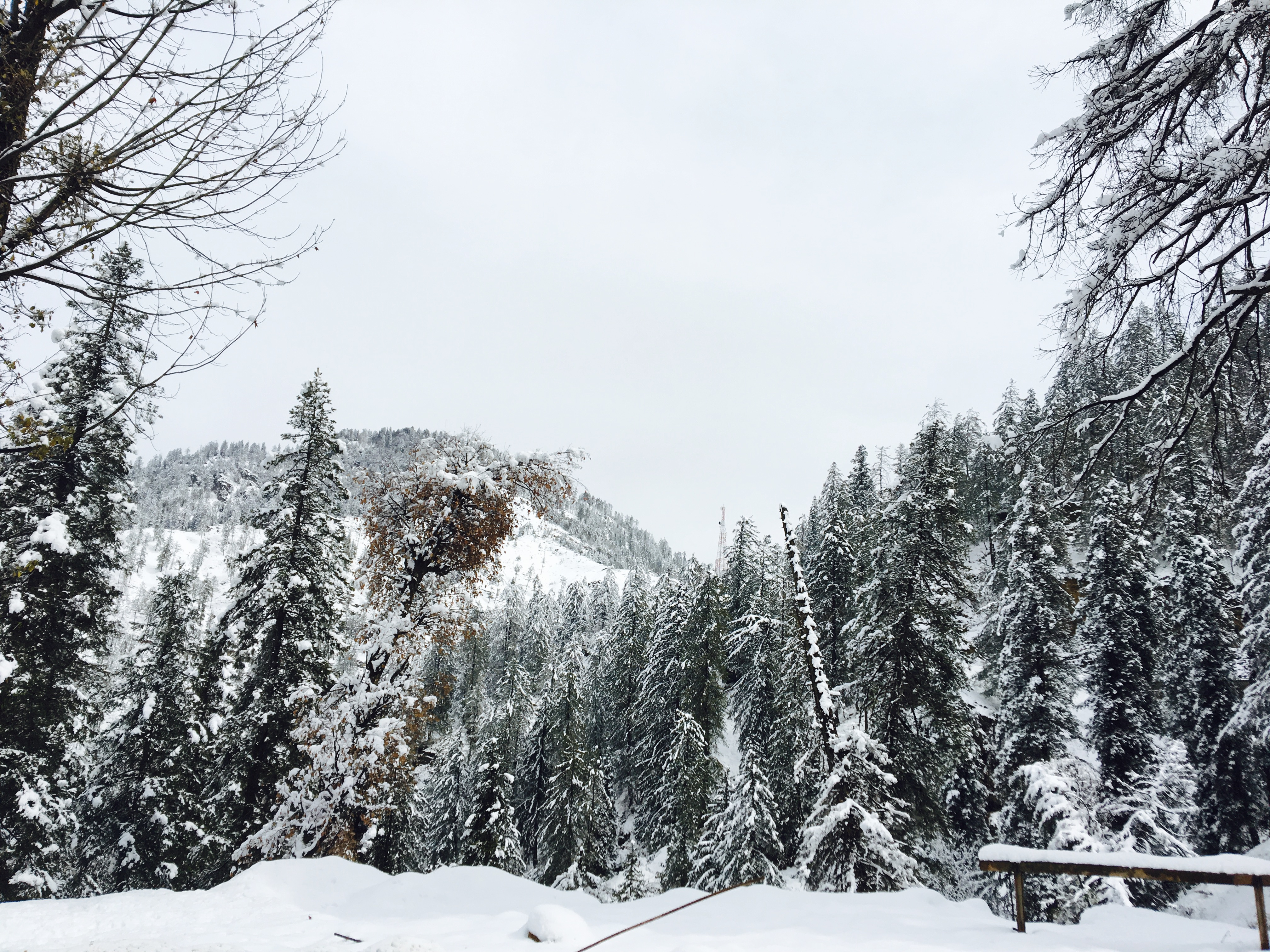 View of Bari Village in Rohru during snow